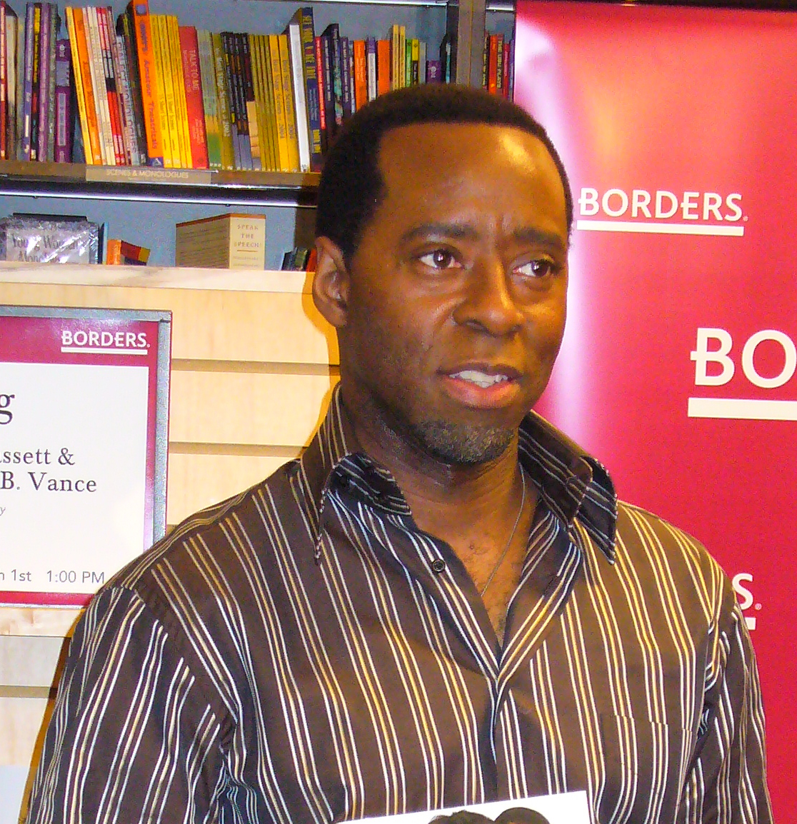 Courtney Vance